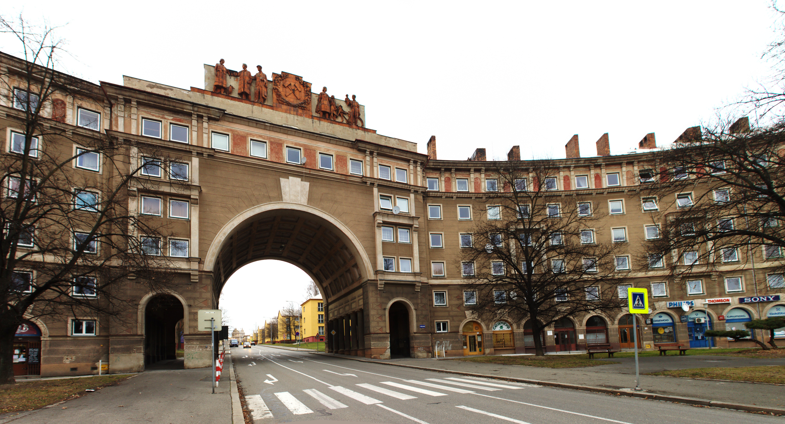 A multi-purpose house "the Arch" (Oblouk in Czech), built in 1950's as a monstrose symbolic gate of the new socialist town of Ostrava-Poruba, CZ